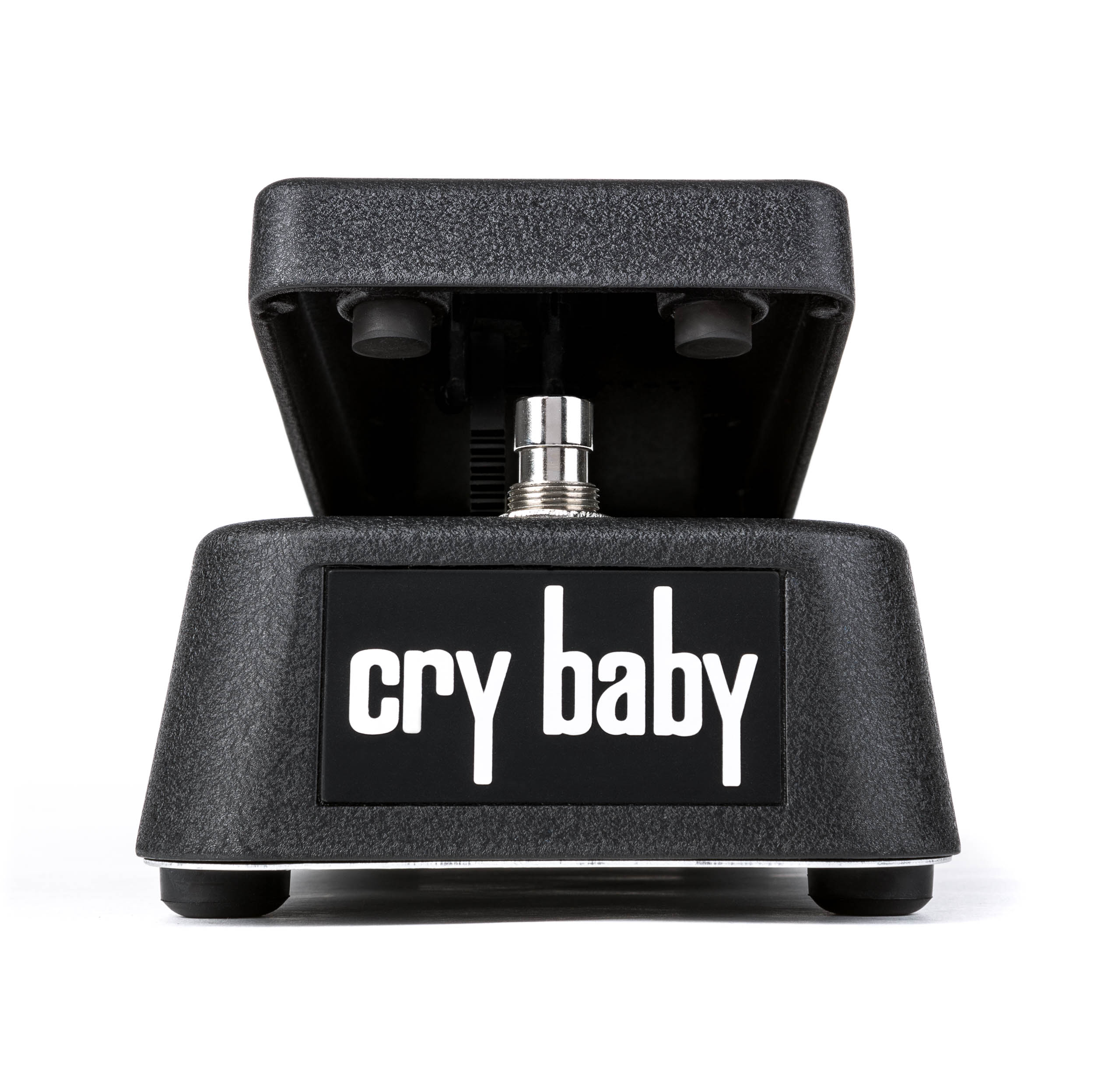 The Original